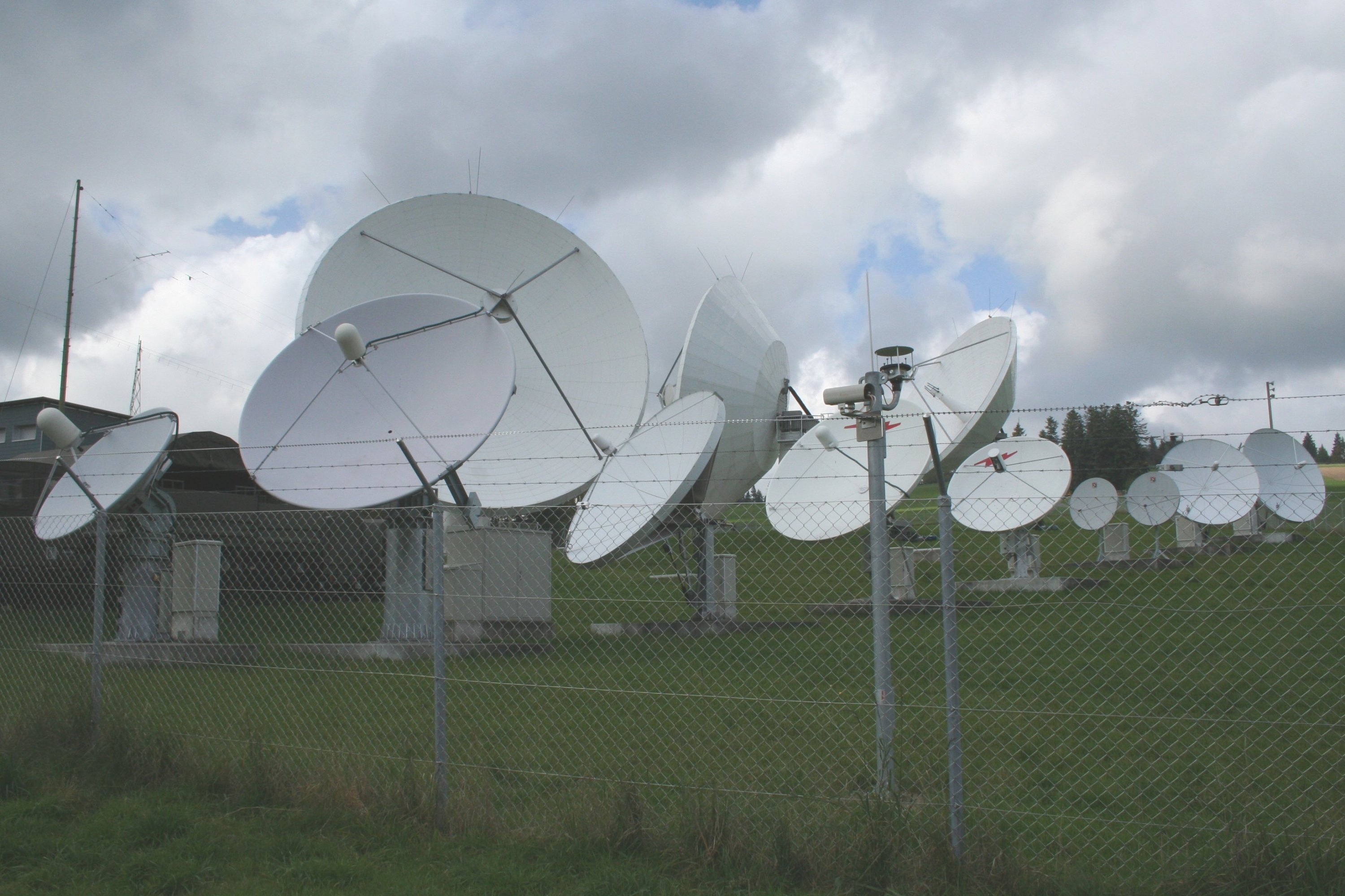 Interception station in Heimenschwand in Switzerland, part of the Onyx interception system of the Swiss army. 46°49′52.81″N 7°42′57.99″E / 46.8313361°N 7.7161083°E